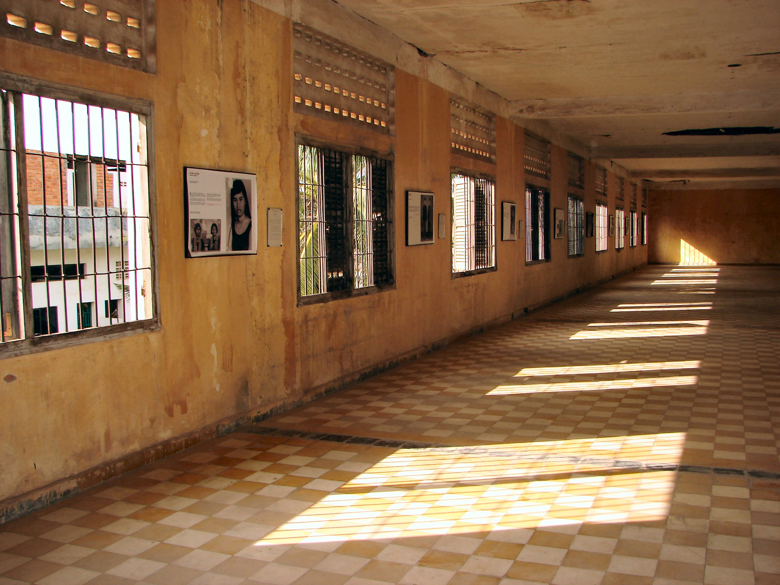 The rooms are mostly empty now, but posters on the wall tell the stories of those who suffered and perished here. The walls are also full of all kinds of stains and marks.